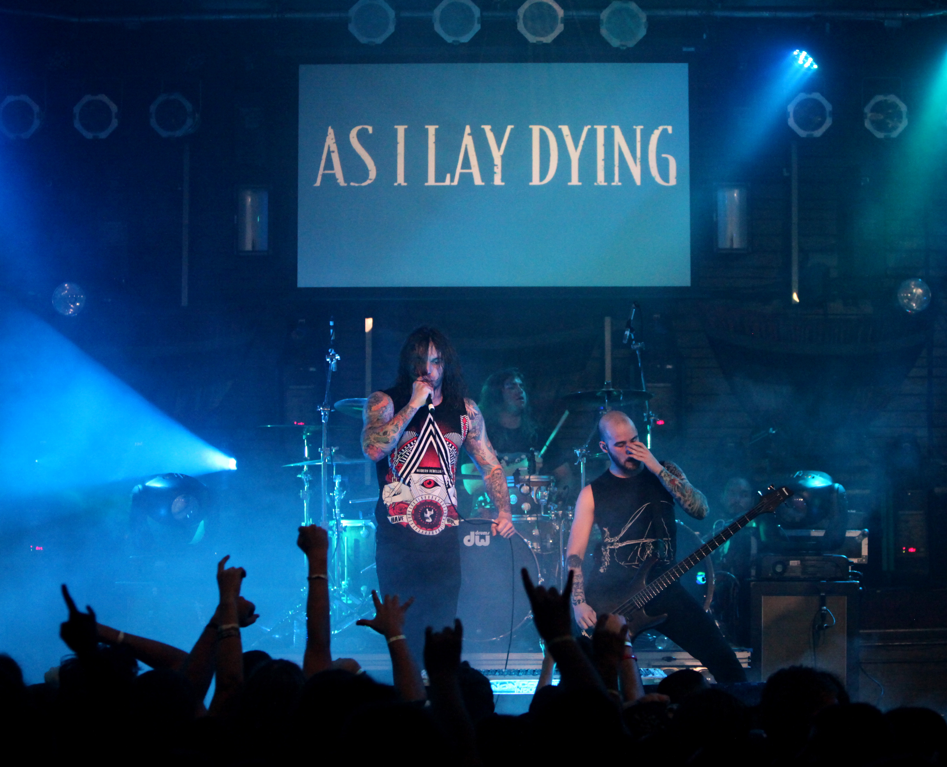 AS I LAY DYING Live in Fort Lauderlade